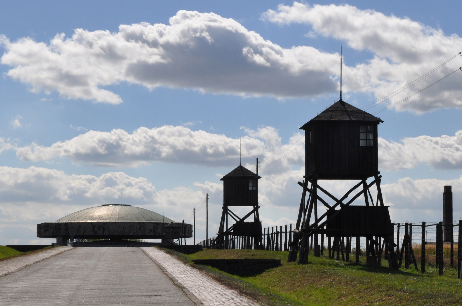 The former Nazi concentration camp Majdanek (German: Konzentrationslager Lublin) on the outskirts of Lublin, Poland. Mausoleum and parts of the Road of Homage and Remembrance (Polish: Droga Hołdu i Pamięci), designed by Wiktor Tołkin and Janusz Dembek. To the right, the fences of the prisoners fields with watchtowers. Northern view.